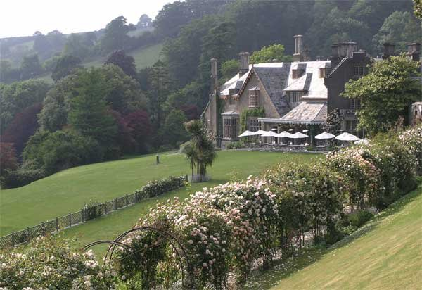 Endsleigh Hotel Endsleigh Hotel was built c.1814 for the Duke of Bedford. It was designed by Jeffry Wyatville.